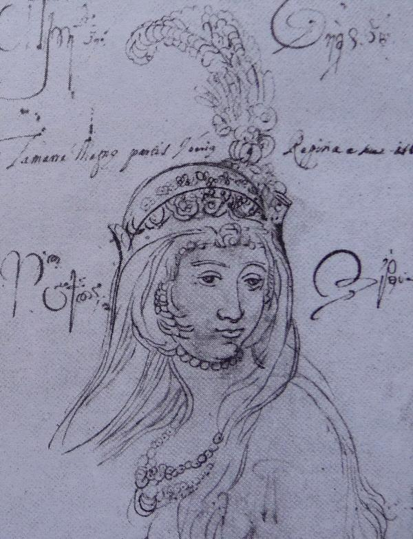 Teimuraz I